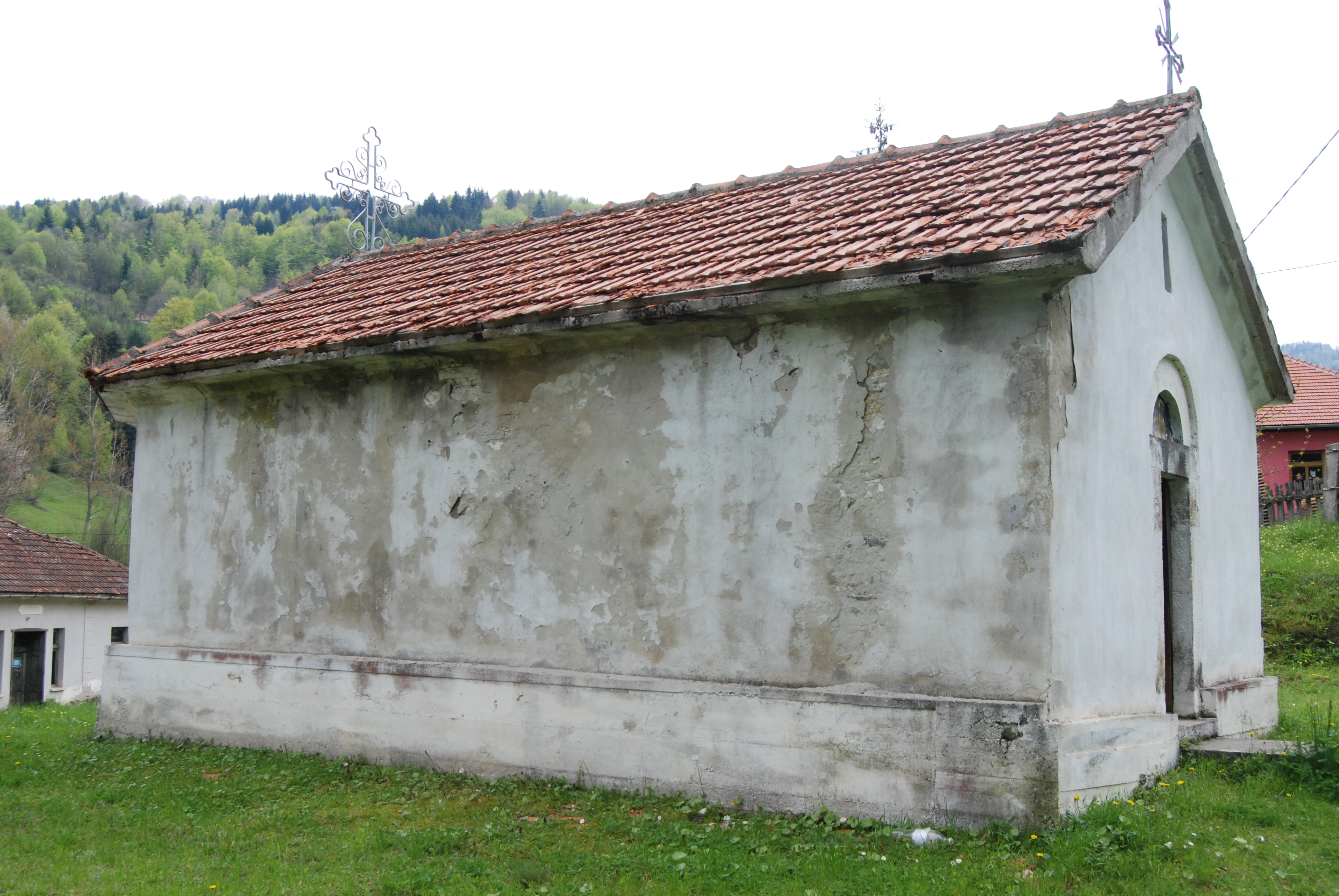 Church of Saints Cosmas and Damian, Ivanjica, Serbia.Српски (ћирилица): Црква Светог Кузмана и Дамјана, Ивањица, Србија.